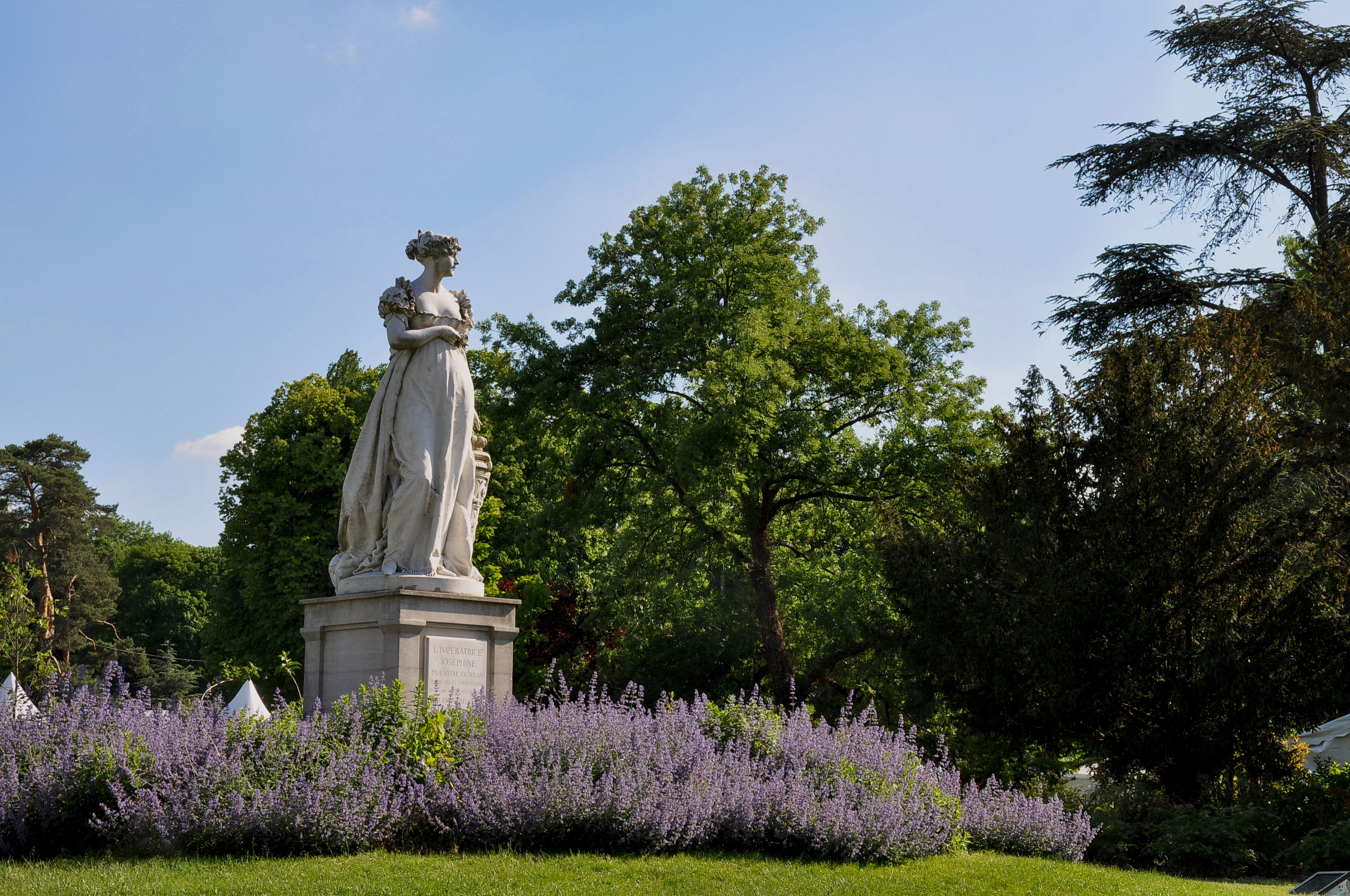 Statue of Joséphine de Beauharnais by Gabriel-Vital Dubray in the Garden of the Bois-Préau Castel in Rueil-Malmaison at Hauts-de-Seine, France.